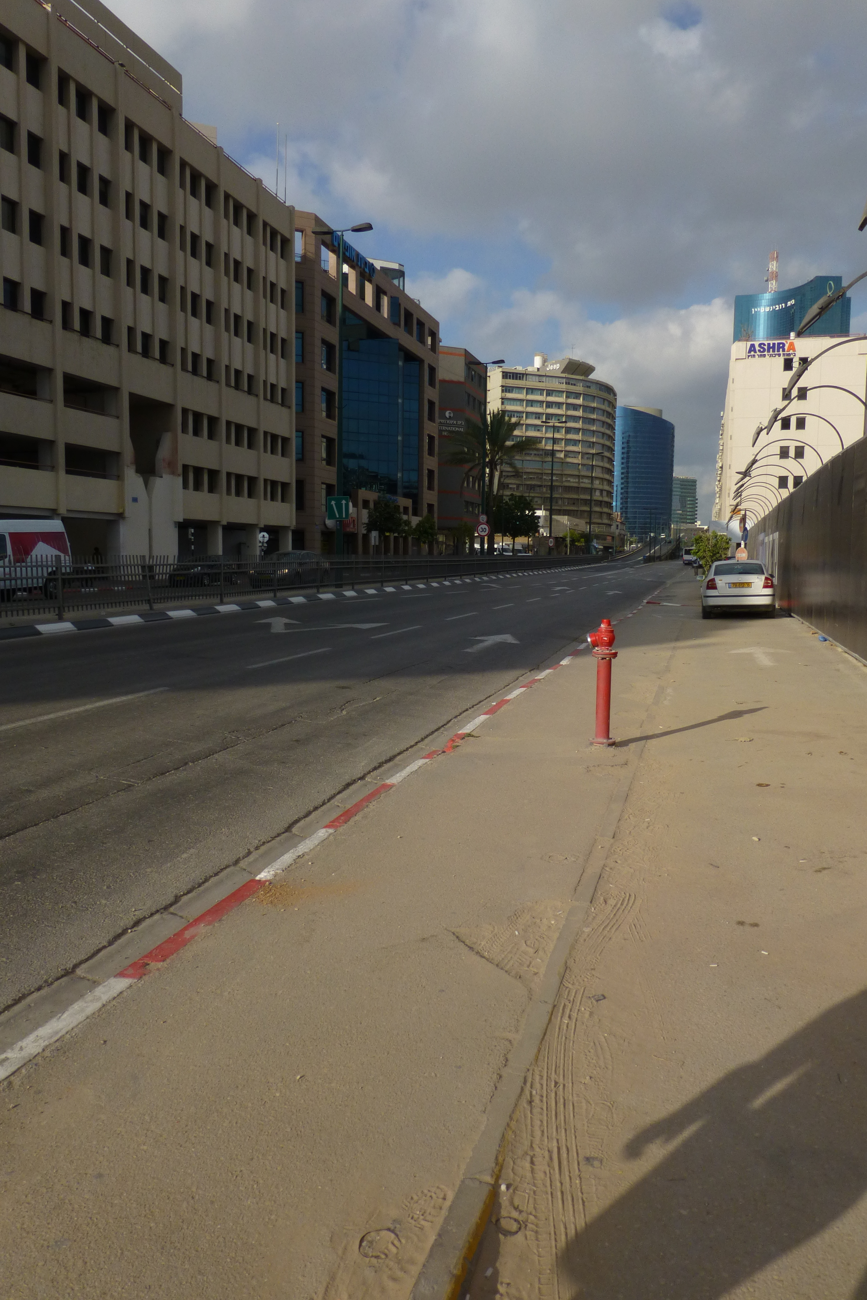 Begin Road, Tel Aviv-Yafo